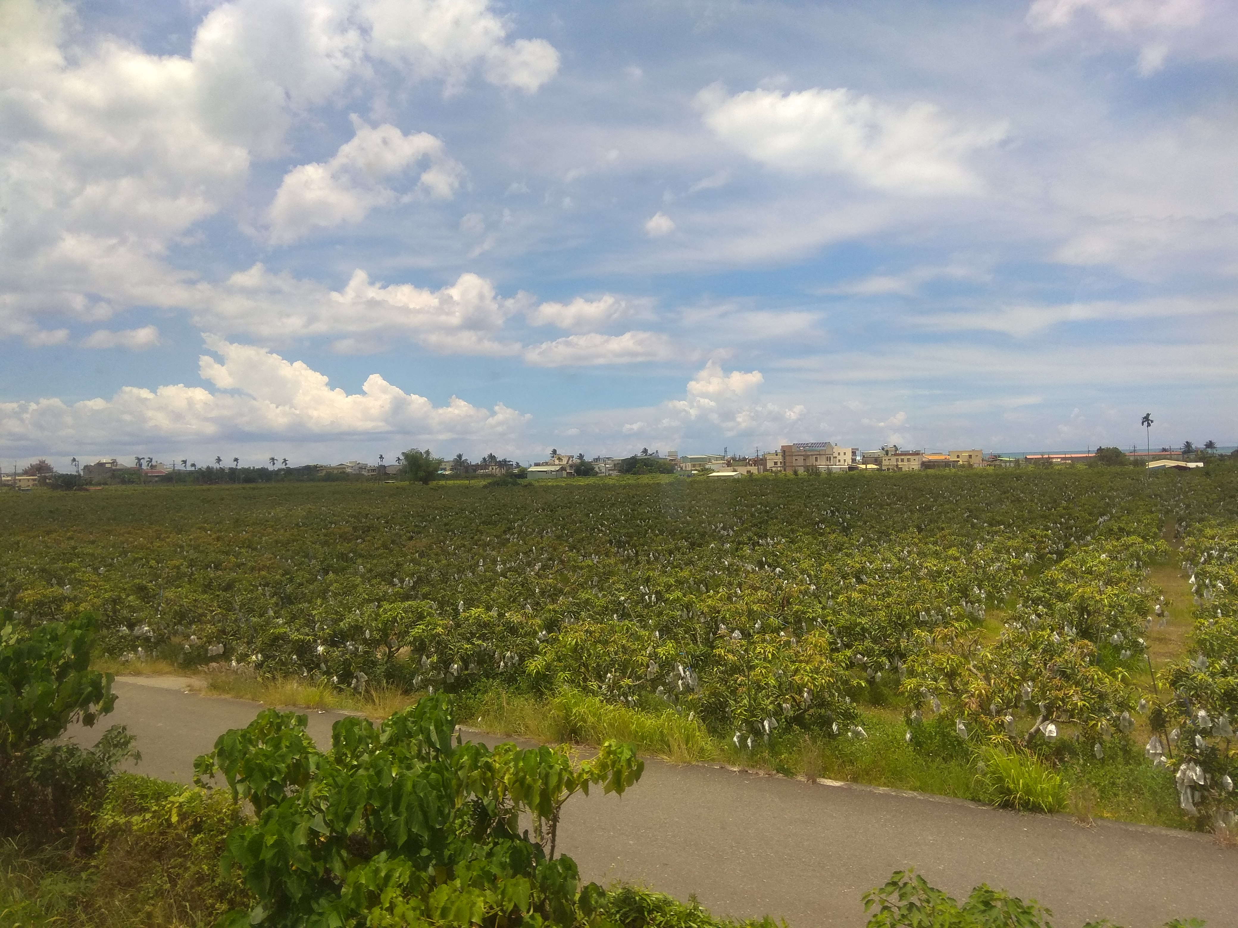 Pingtung plain (Taiwan strait side III)